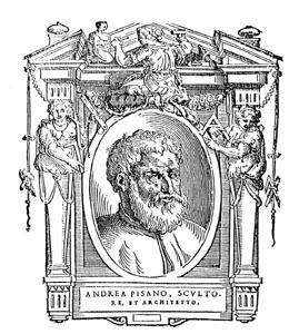 Illustratio from "Le Vite" by Giorgio Vasari, edition of 1568. For the artist portrayed see filename